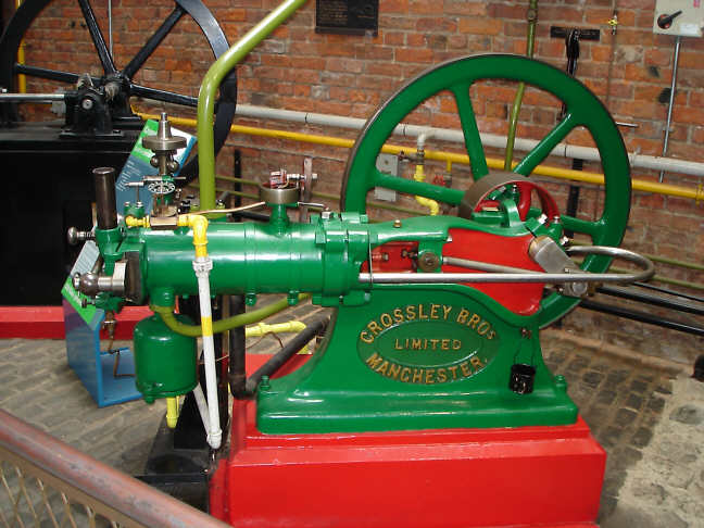 Crossley Brothers Ltd., Manchester, No. 1 Engine, 4.5 hp single cylinder, 4-stroke gas engine, 160 rpm. Manufactured about 1886. Fully functional display at the Manchester Museum of Science and Industry.